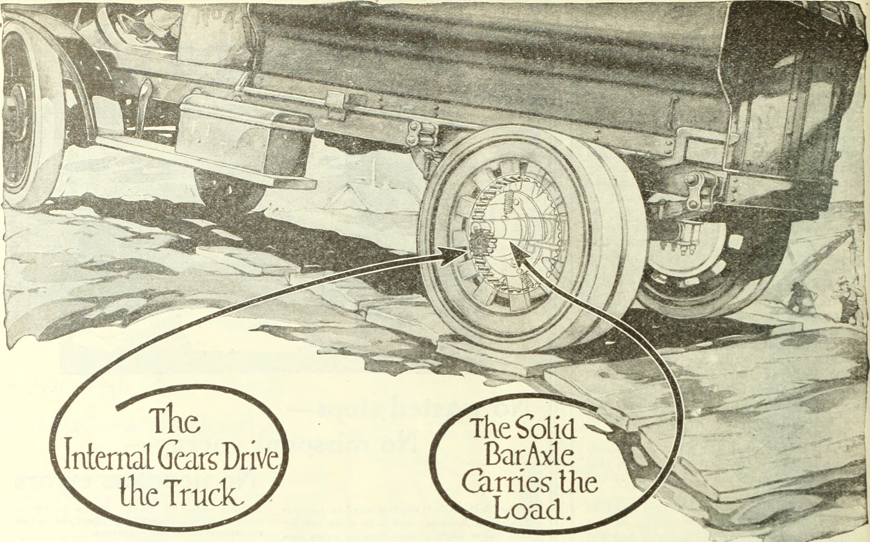 Title: The literary digest Year: 1890 (1890s) Authors: Subjects: Publisher: New York : Funk & Wagnalls (etc.) Text Appearing Before Image: rk City Branch Offices and Service Stations in All Principal Cities Other Dictograph Products The Acousticon for the Deaf—The Aviaphone forAir Service—The Dictograph for Secret Service^The.Motor Dictograph for Closed Cars.Ask for special circulars. Dictograph for the Home The Dictograph marks the beginning of a newera in home, comforts and home organization.Write for special home folder. (Architects, write for information.) Check the Coupon for 5-Minute Demonstration or Free Booklet Mail to General Acoustic Co., 1351 Candler Bldg., 220 W. 42nd St., N. Y. City. D 5-Minute Demonstration You may give us a 5-minute Demon-stration of the Dictograph, with the un-derstanding that it places the undersignedunder no obligations. I—I Free Booklet — You may mail An Essay on Execu-tive Efficiency, which analyzes the prob-lem of inter-communication, and its rela-tion to successful and economical conductof modern business. Name Position-Co Add ress. 182 The Literary Digest for March 29, 1919 Text Appearing After Image: npHE RUSSEL DRIVE delivers the maxi-^ mum power of the motor to the drivewheels. There is practically no friction whichwastes power because the RUSSEL DRIVEemploys spur gears, involving a rolling action—admittedly the most efficient method of trans-mitting power in a drive axle. The entire weight of both truck and load iscarried on a separate member of solid chromenickel steel with spindles integral. You can save gasoline and tires with a RUSSELdriven truck. It affords the most road clearance.RUSSEL MOTOR AXLE COMPANY, DETROIT, U. S. A.